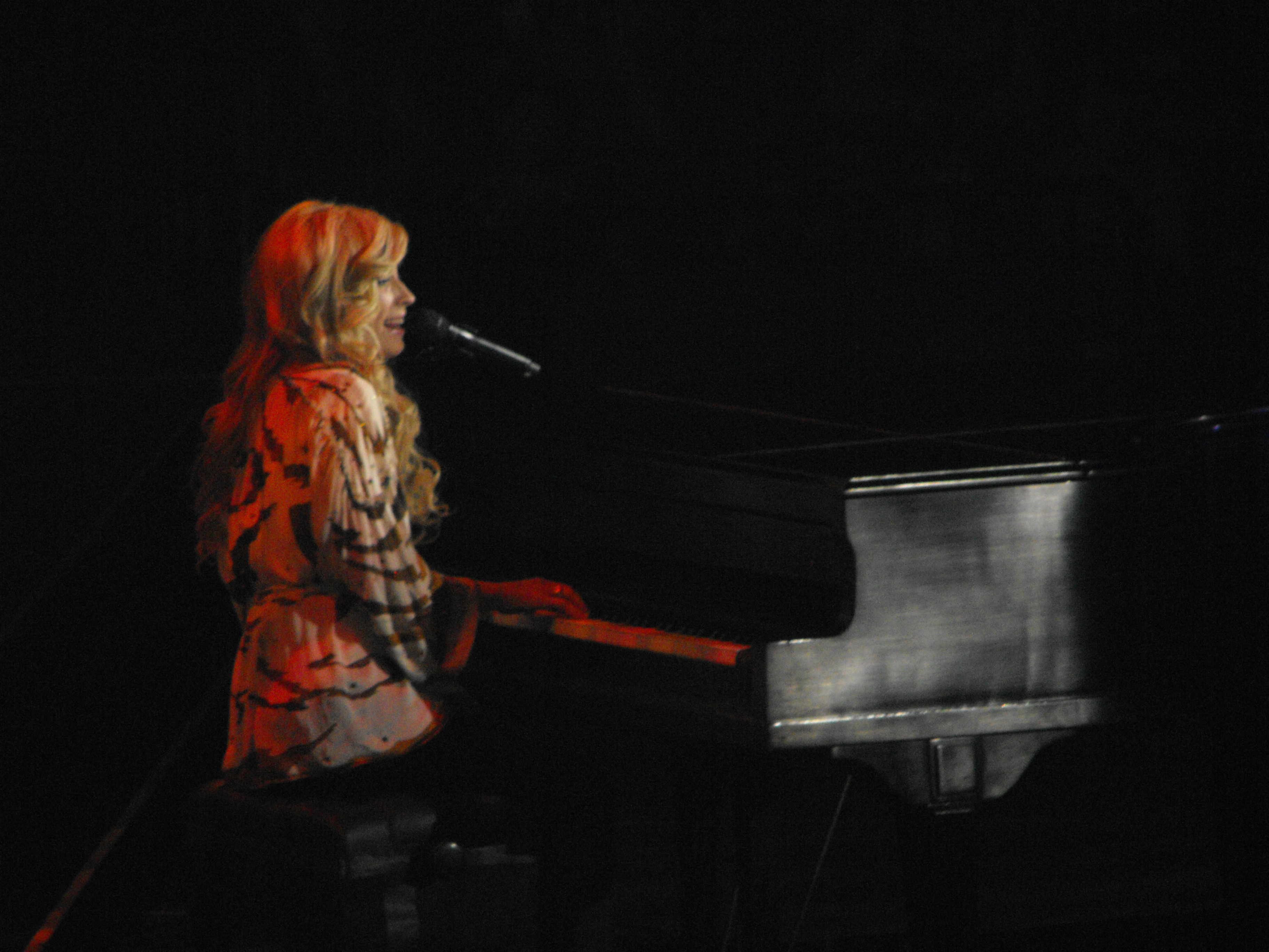 Brooke White